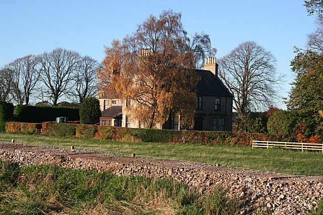 Burnside of Dipple Farm House This is another large eighteenth century farm house with a fine southerly aspect. The bare ground in the foreground is the embankment on the far side of the burn which drains into the River Spey. The flat top looks as if is might be intended as a path, but I would need to ask about that.